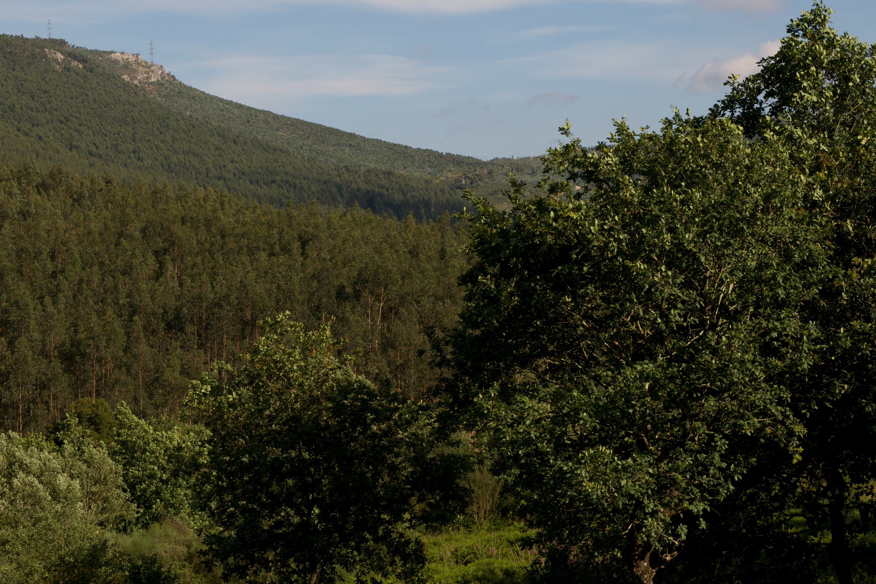 This is a photography of a Site of Community Importance in Portugal with the ID: PTCON0024. Natura2000 entry, EEA entry